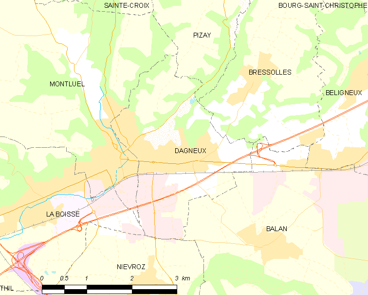 Map of French commune: Dagneux Map commune FR insee code 01142.png